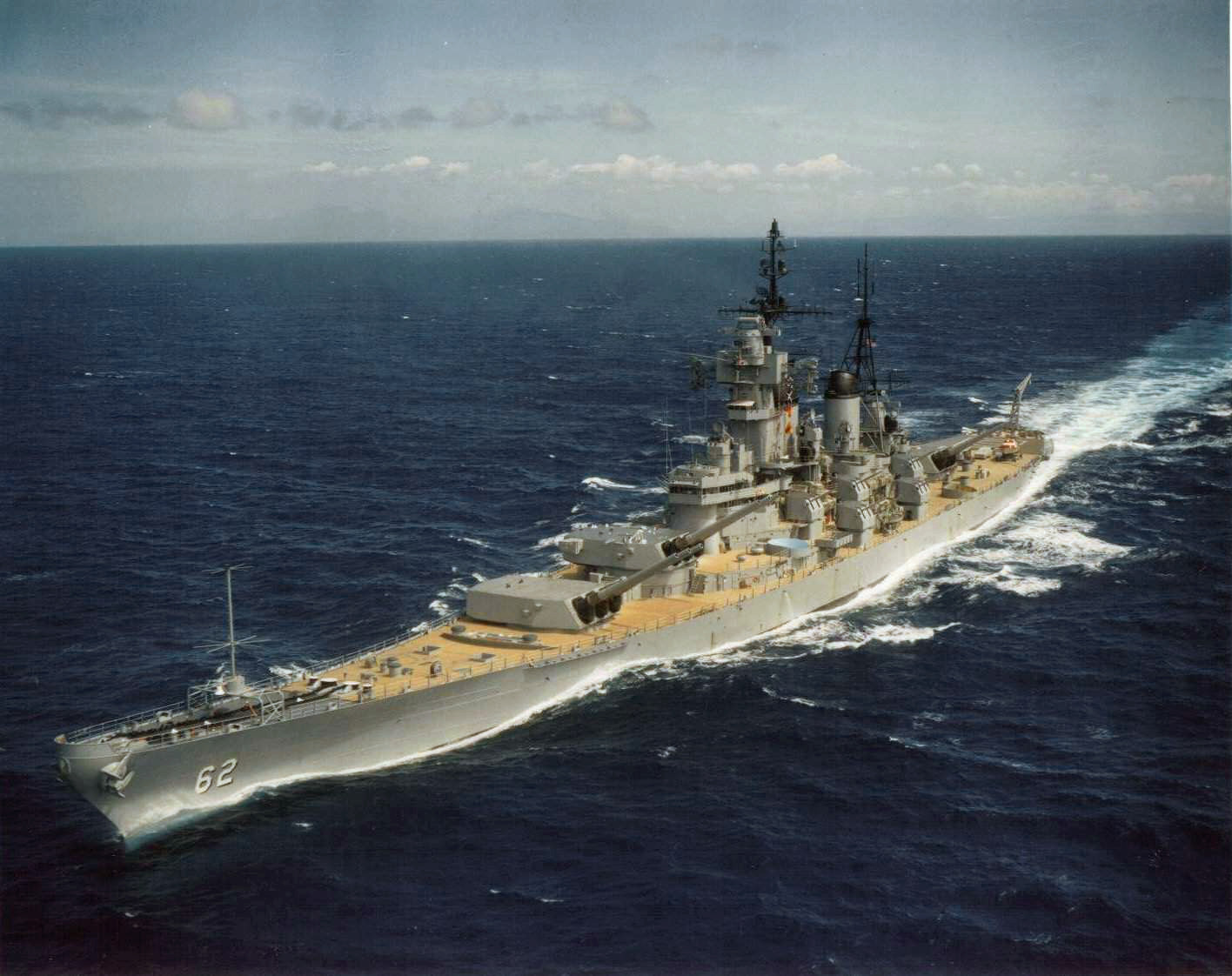 Recommissioned for Vietnam, the New Jersey (BB-62) was little modified. She is shown off Oahu, Hawaii, 11 September 1968. Although she appears festooned with radio antennas, in fact her communication suit was extremely austure. It symbolized a key problem of the reserve fleet. Communication equipment changes relativley rapidly. Ships otherwise quite usable may be entirely unable to communicate with more modern craft unless they are given entirely new radio systems. The other major modification was for self defense: an early version of SHORTSTOP, a combination jammer and chaff-launcher. The ULQ-6B jammer was located in the box atop her foremast, its antennas projecting out on both sides. When the New Jersey was refitted again in 1981-82, the box was retained as a base for a new SLQ-32 system. It was not particularly conveient, and the other refitted battleships have a more streamlined ECM housing. The New Jersey had been laid up with her 40mm mounts in place. All were removed when she was recommissioned, but the foreward gun tubs (on the 01 level), painted white, were used by the crew as swimming pools. Note that the ship retained her old (and quite obsolescent) SPS-12 air-search radar.